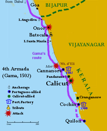 Route of the 4th Portuguese India Armada (under Vasco da Gama, 1502) along the Indian Malabar coast.